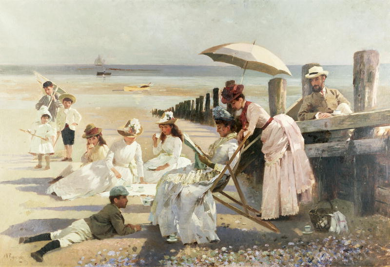 On the Shores of Bognor Regis (Oil on Canvas) - William Halford & Family painted by A. M. Rossi